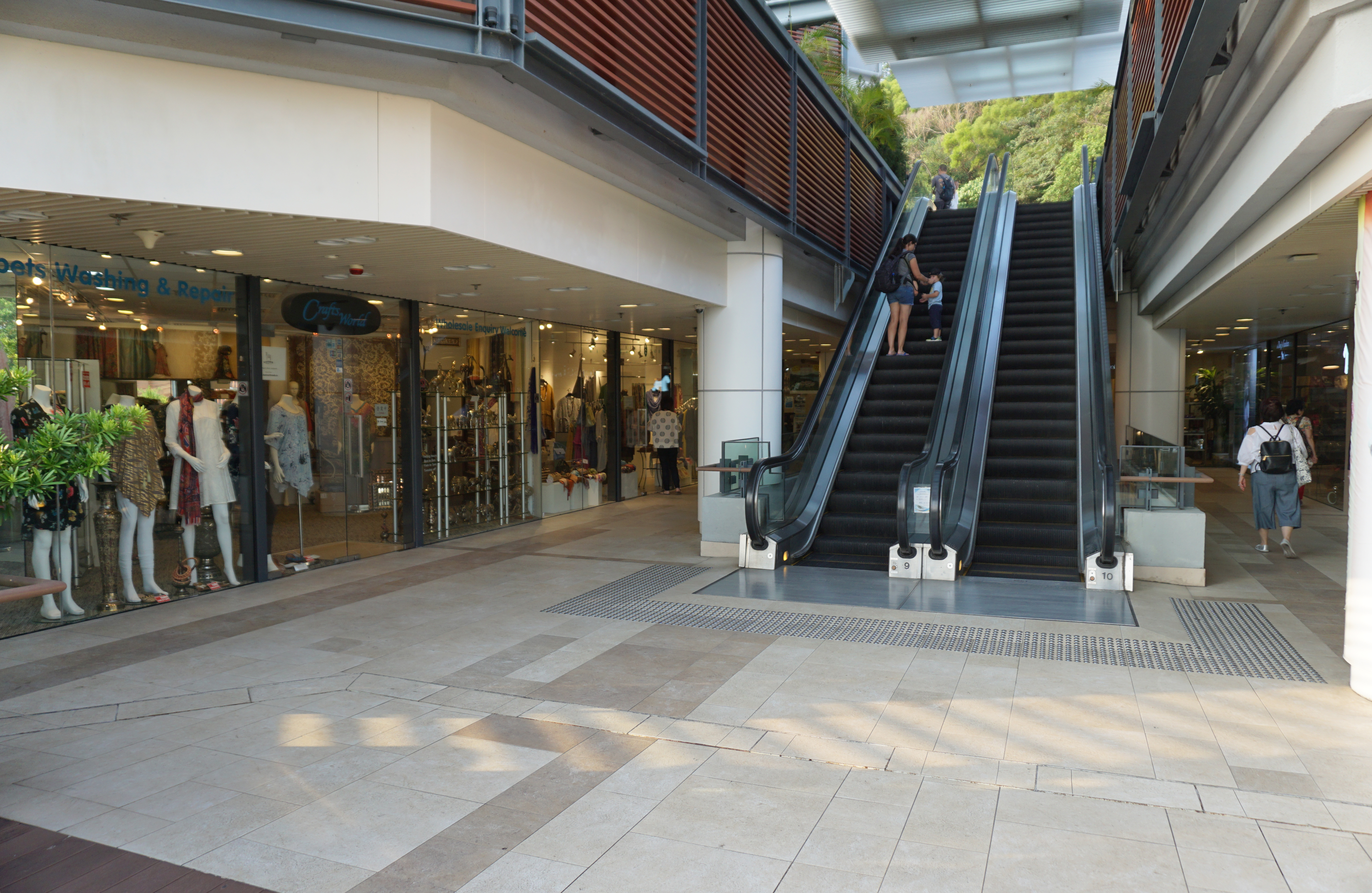 Stanley Plaza in Stanley, Hong Kong.